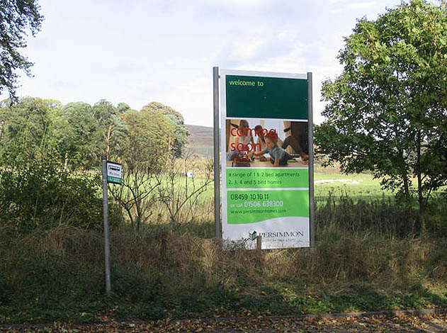 Persimmon Homes sign On the north side of the B6374 at Easter Langlee. Persimmon Homes have a planning application lodged with Scottish Borders Council for the erection of 118 dwelling houses in two fields beyond this sign.